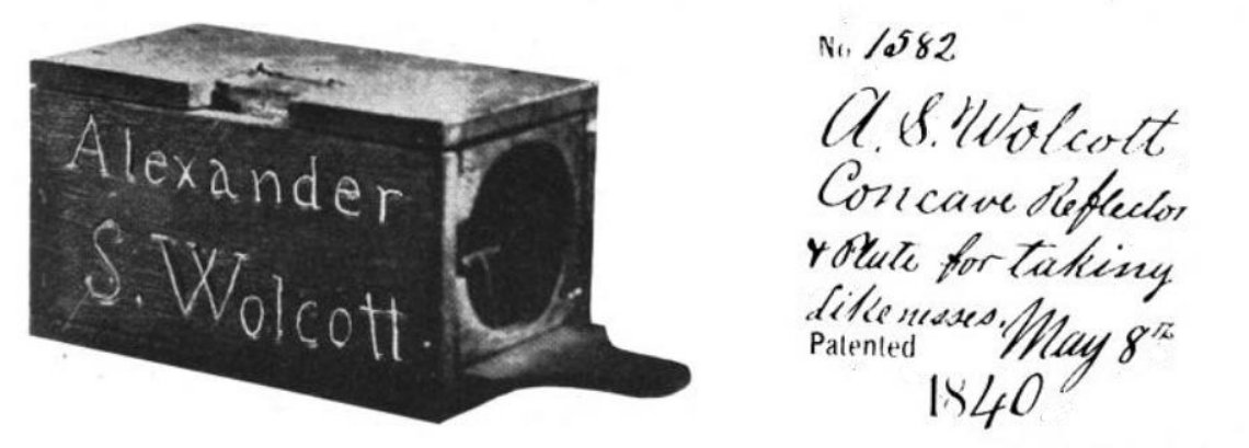 Alexander Wolcott camera invention 1840